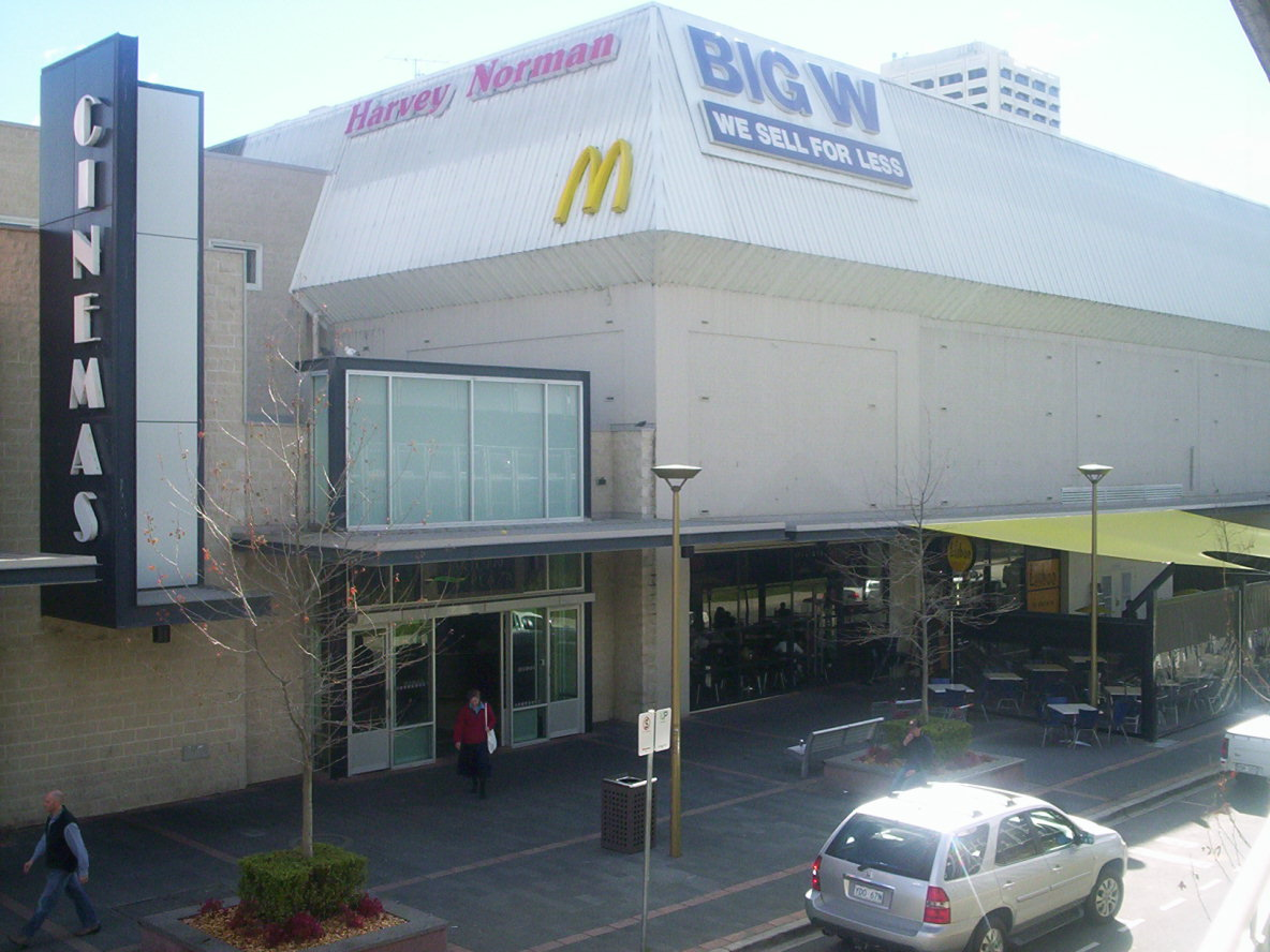 Woden Plaza, Canberra. I took the photo Cfitzart 05:14, 25 August 2005 (UTC)